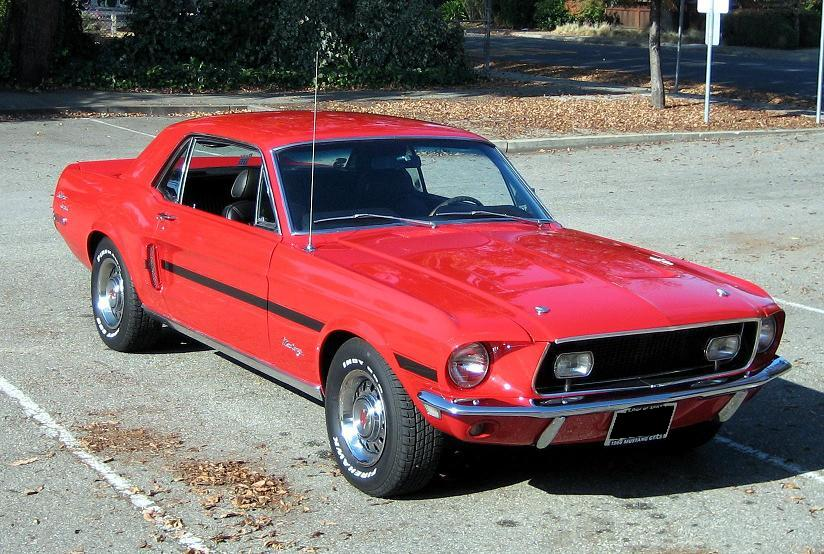 1968 Red GT/CS Mustang - front view. Car owned by JH. Photo by JH. Image uploaded to Wikipedia by JH.